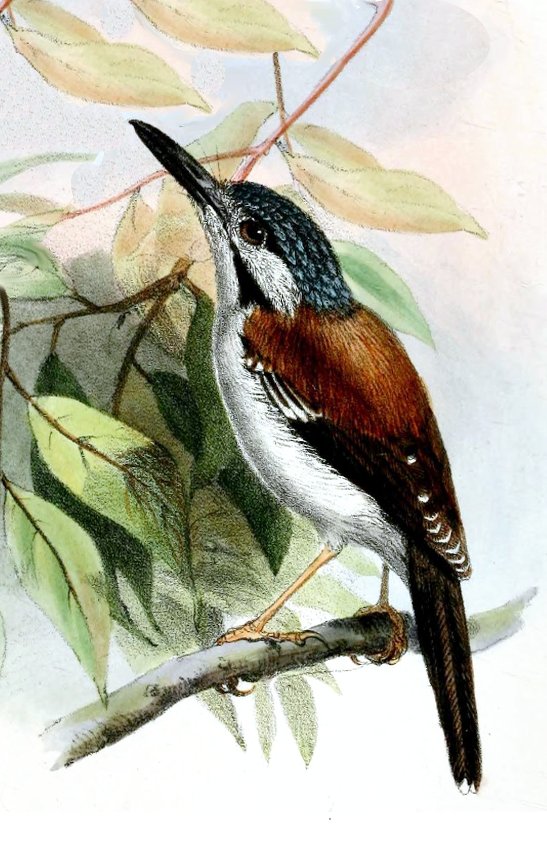 Wallace's Fairy-wren